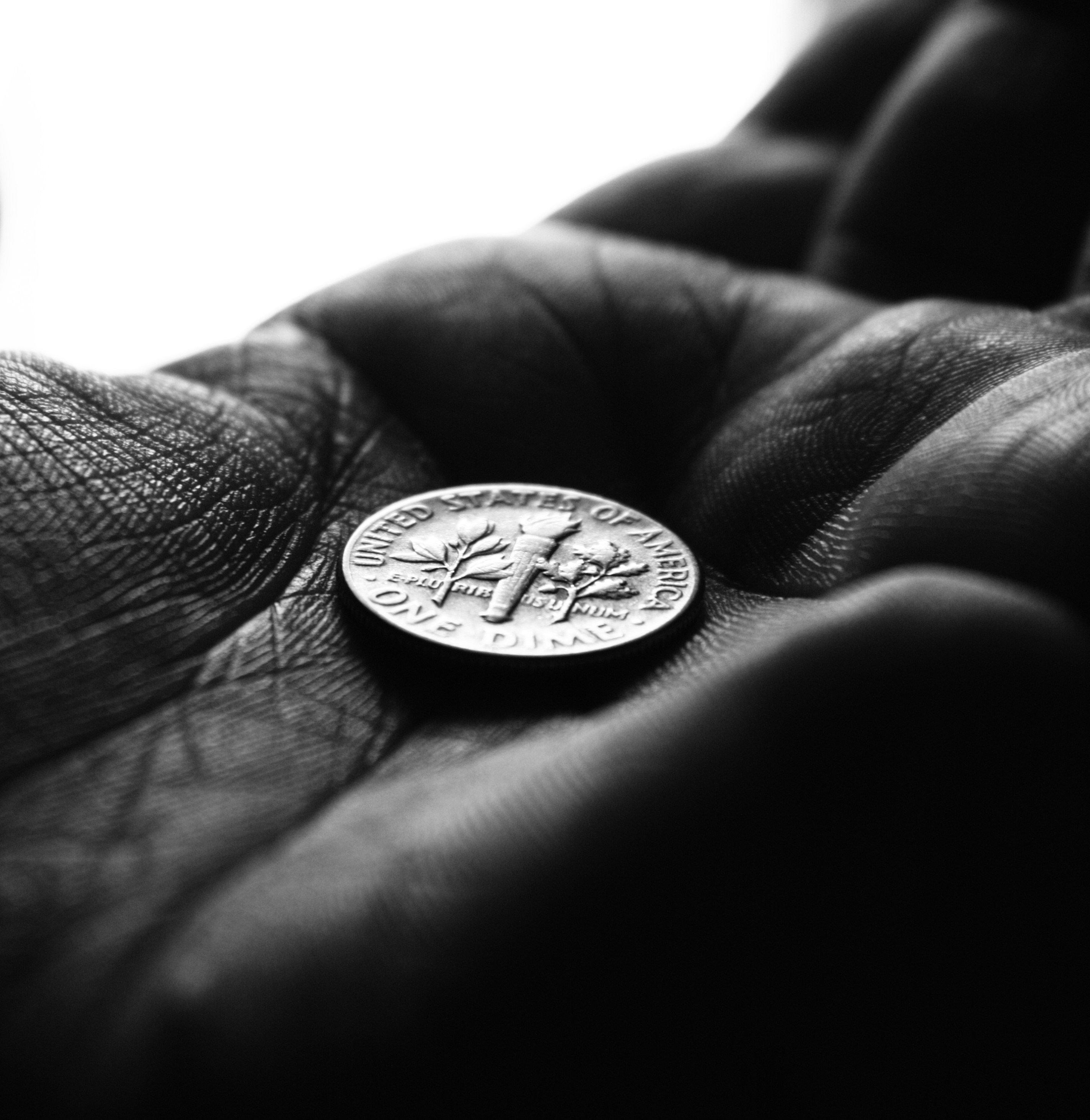 Artistic photograph of a dime in a hand, illustrating the phrase Brother, Can You Spare a Dime?.